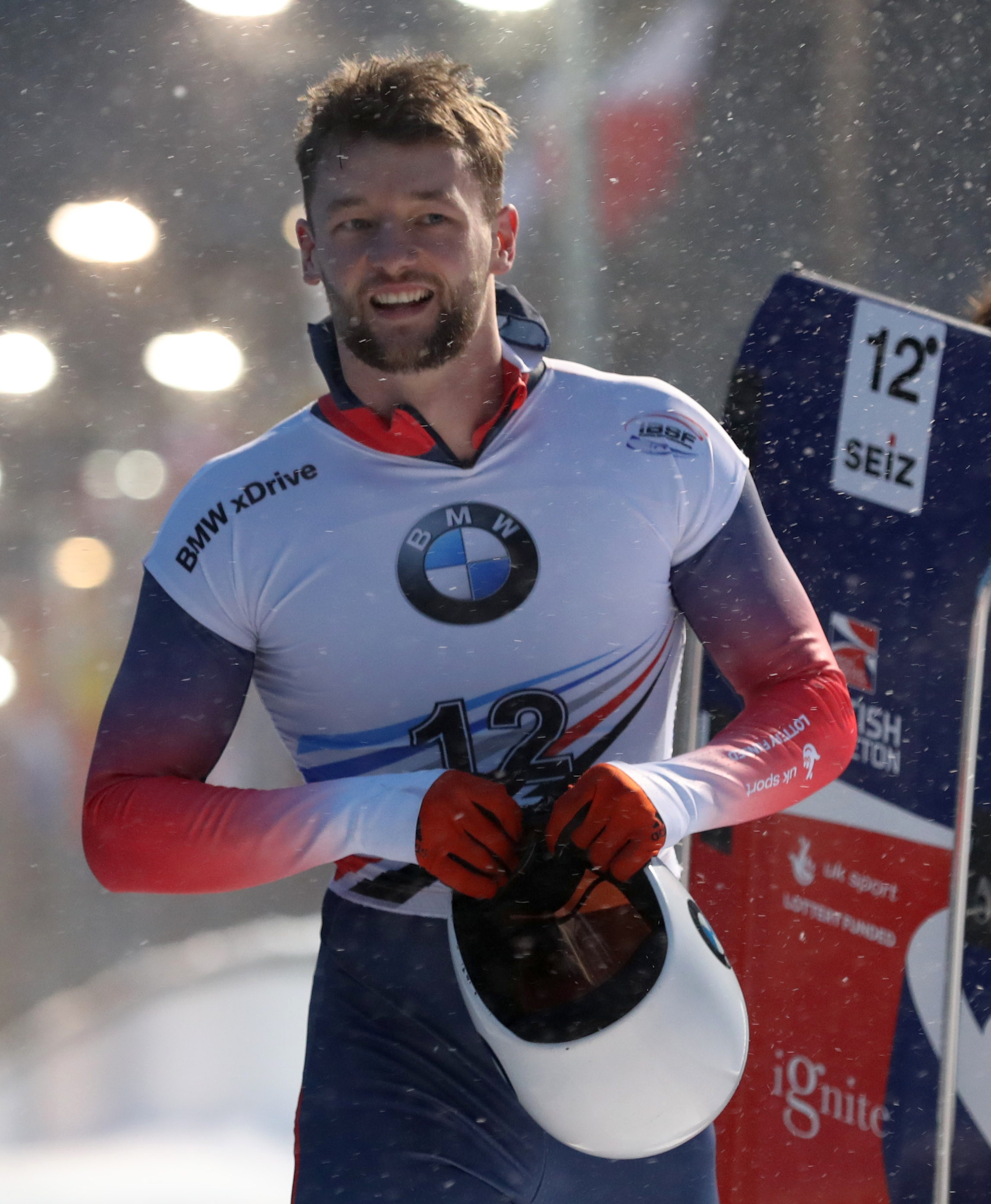 Men's World Cup race at the 2018/19 Skeleton World Cup in Altenberg